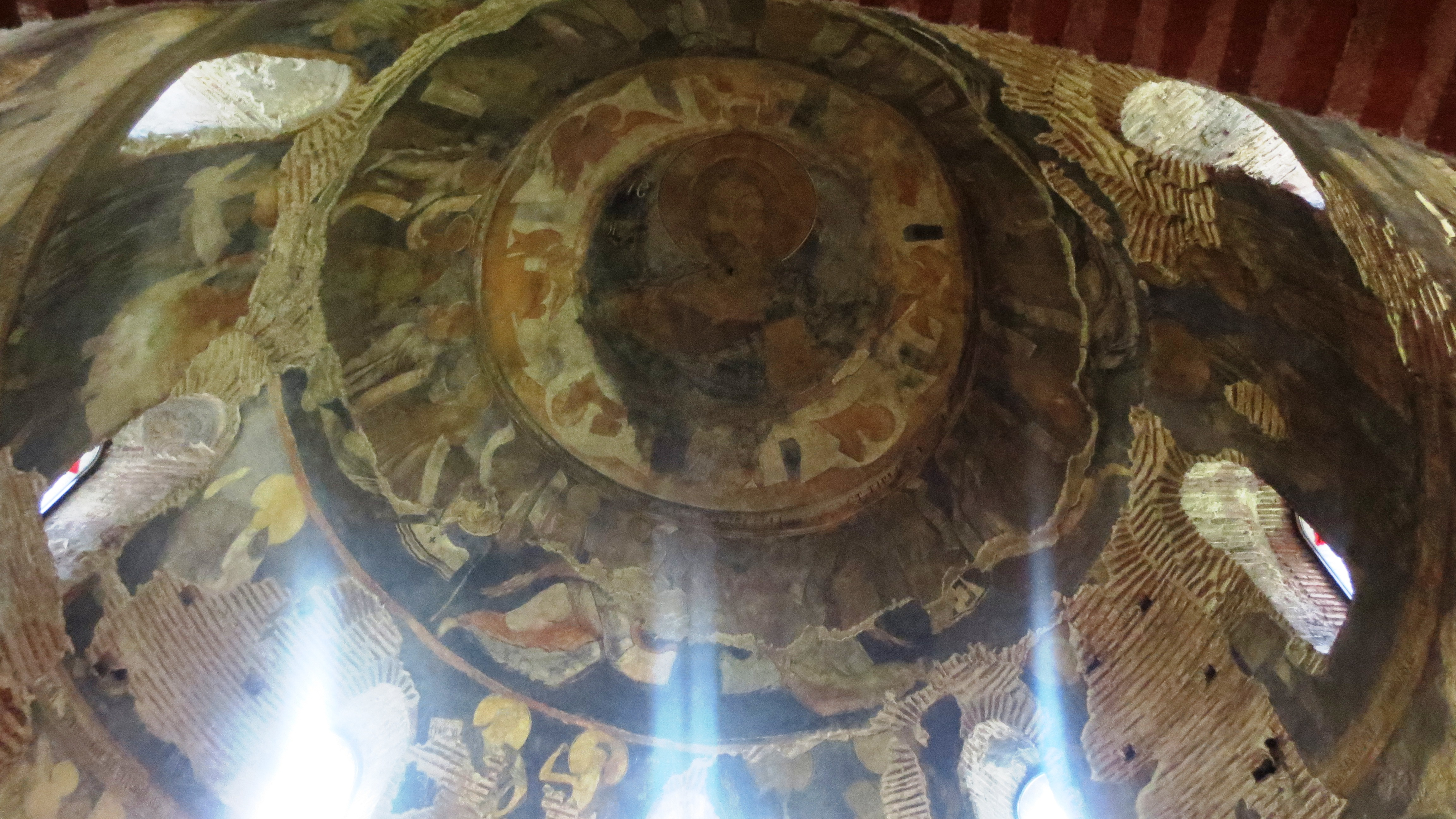 St Georg Rotunda Church is located inside the backyard of the presidential Palace of Bulgaria, with excavated parts of old Serdica. The Church is from early Middle Ages.